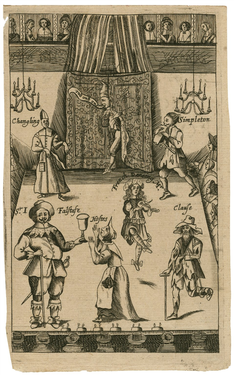 Print from the 1660s depicting theatrical characters of the era, including Falstaff and Mistress Quickly; The Changeling (Middleton); Clause (Beggar's Bush); Clown (Greene's Tu quoque) etc